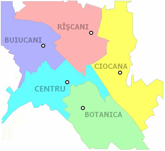 Map of Chişinău with sectors